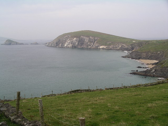 Dunmore Head and Coumeenoole Beach near Slea Head, Dingle Peninsula, County Kerry, Ireland